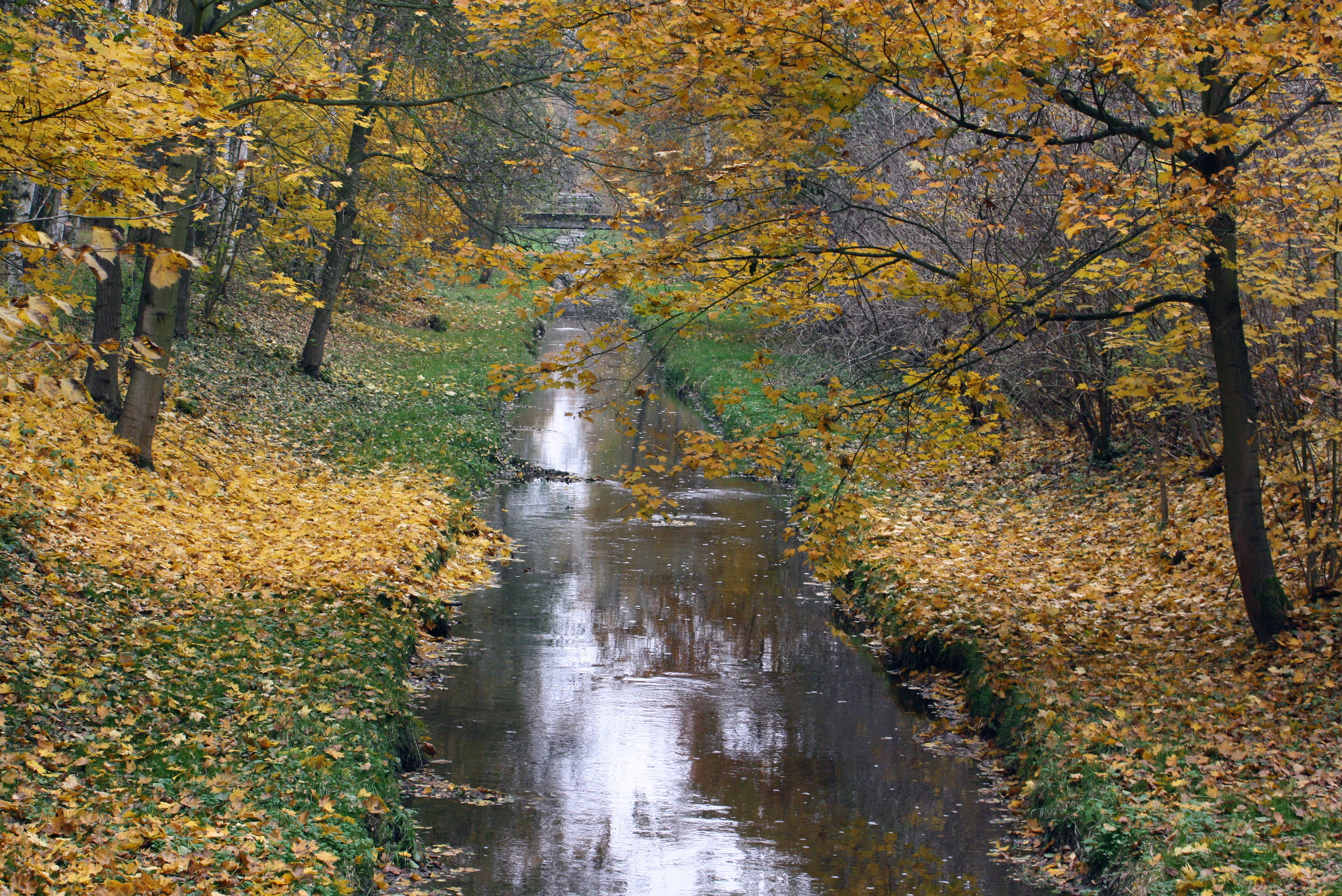 Canal in in the Park of Františkovy Lázně in autumn.